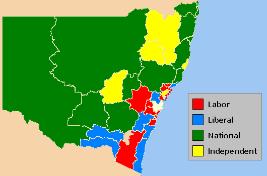 Results of the New South Wales general election, 2007. See also: Sydney inset